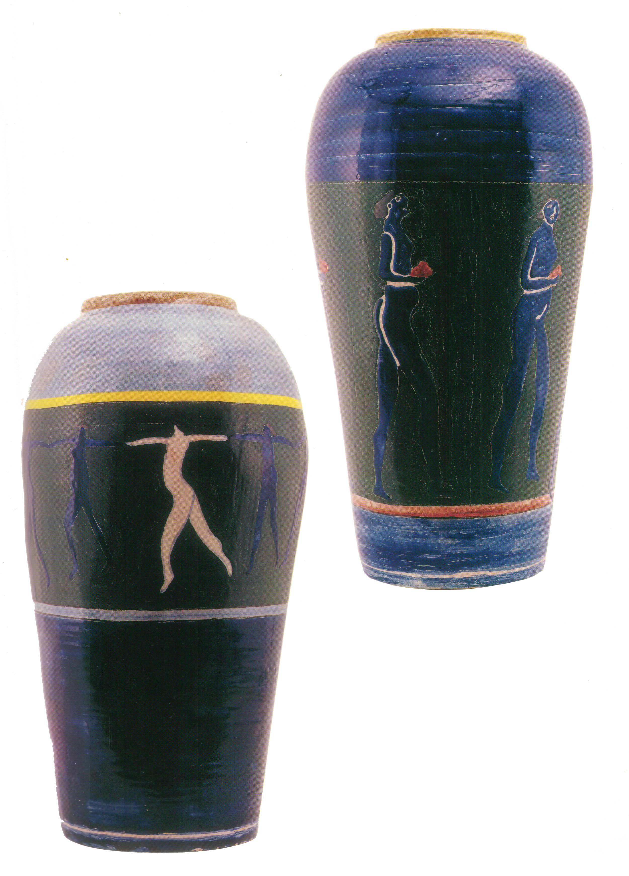 Two ceramic pieces called tibores created by Joy Laville for Uriarte Talavera in Puebla, Mexico